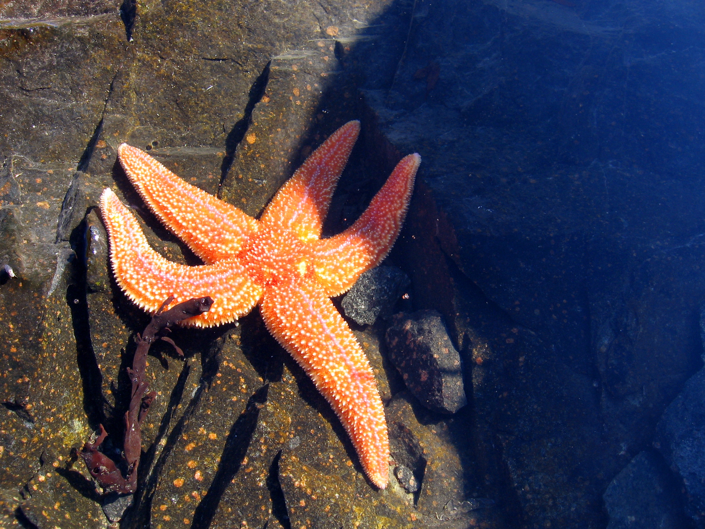 Sea star from Kandalaksha Gulf of White Sea. Murmansk Region, Russia.